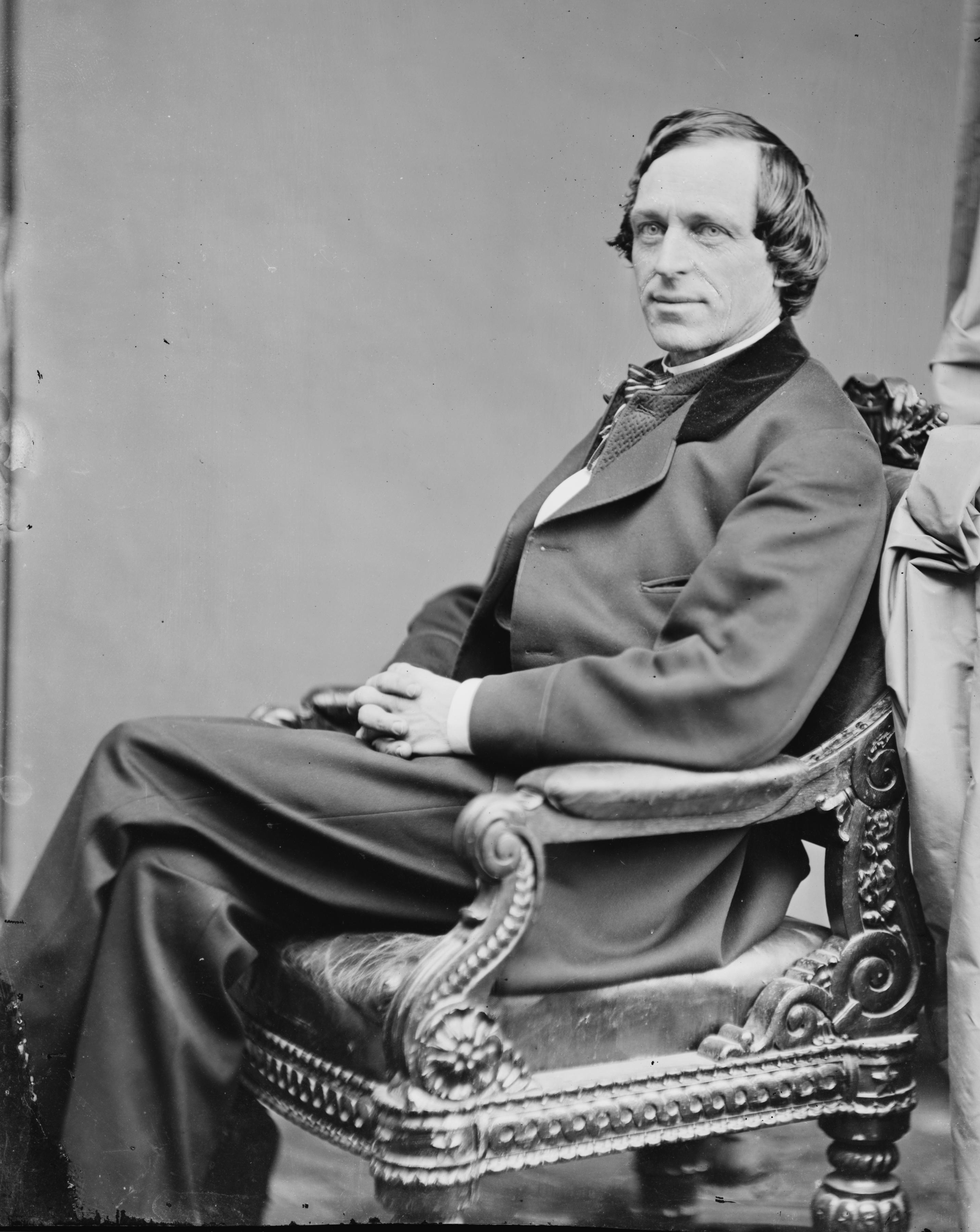 Solomon Newton Pettis. Library of Congress description: "Hon. Solomon Newton Pettis of PA."